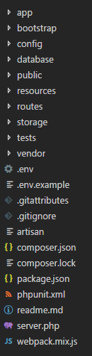 Laravel application structure